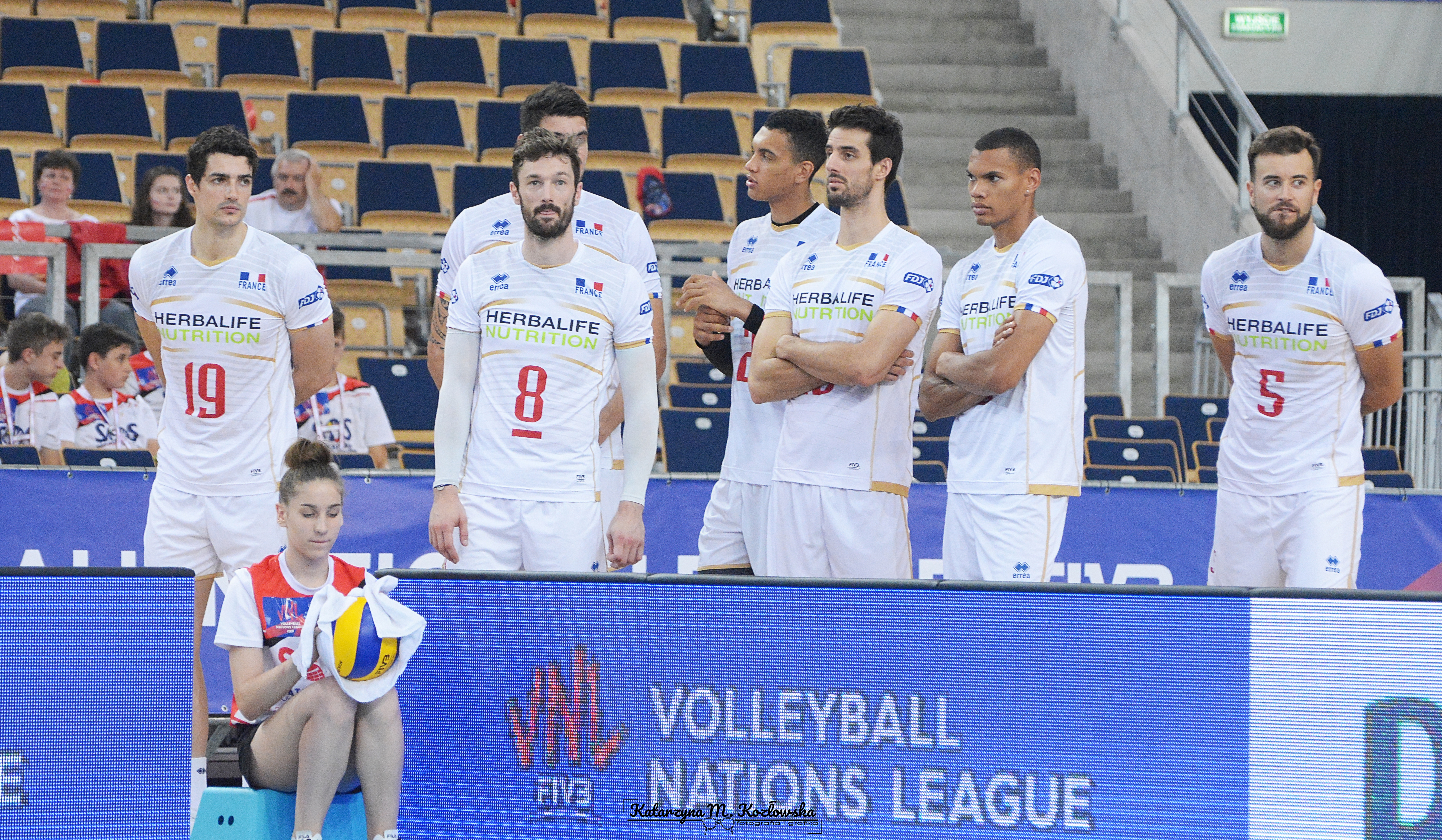 Volleyball Nations League: France - China